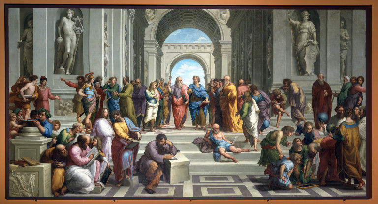 Scuola di Atene